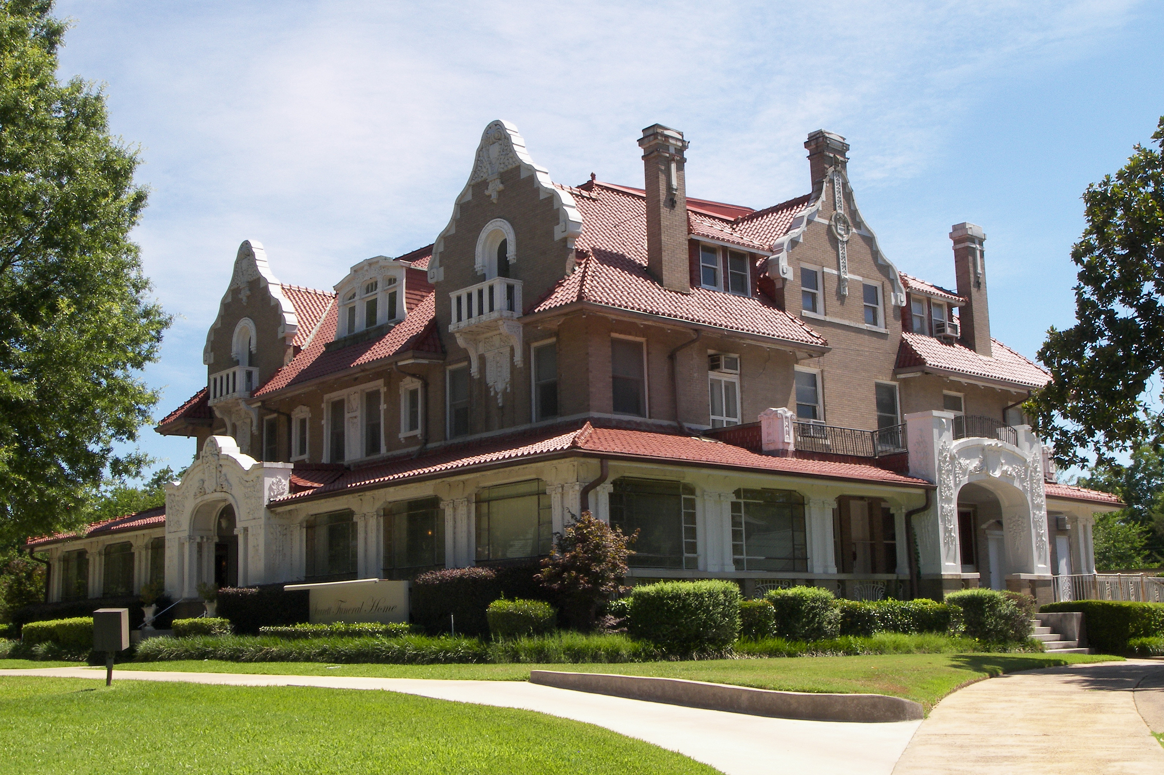 The Scott Mansion located at 425 S. Church St, Paris, Texas, United States. The mansion was listed on the National Register of Historic Places on September 15, 1983 and designated a Recorded Texas Historic Landmark in 1984.